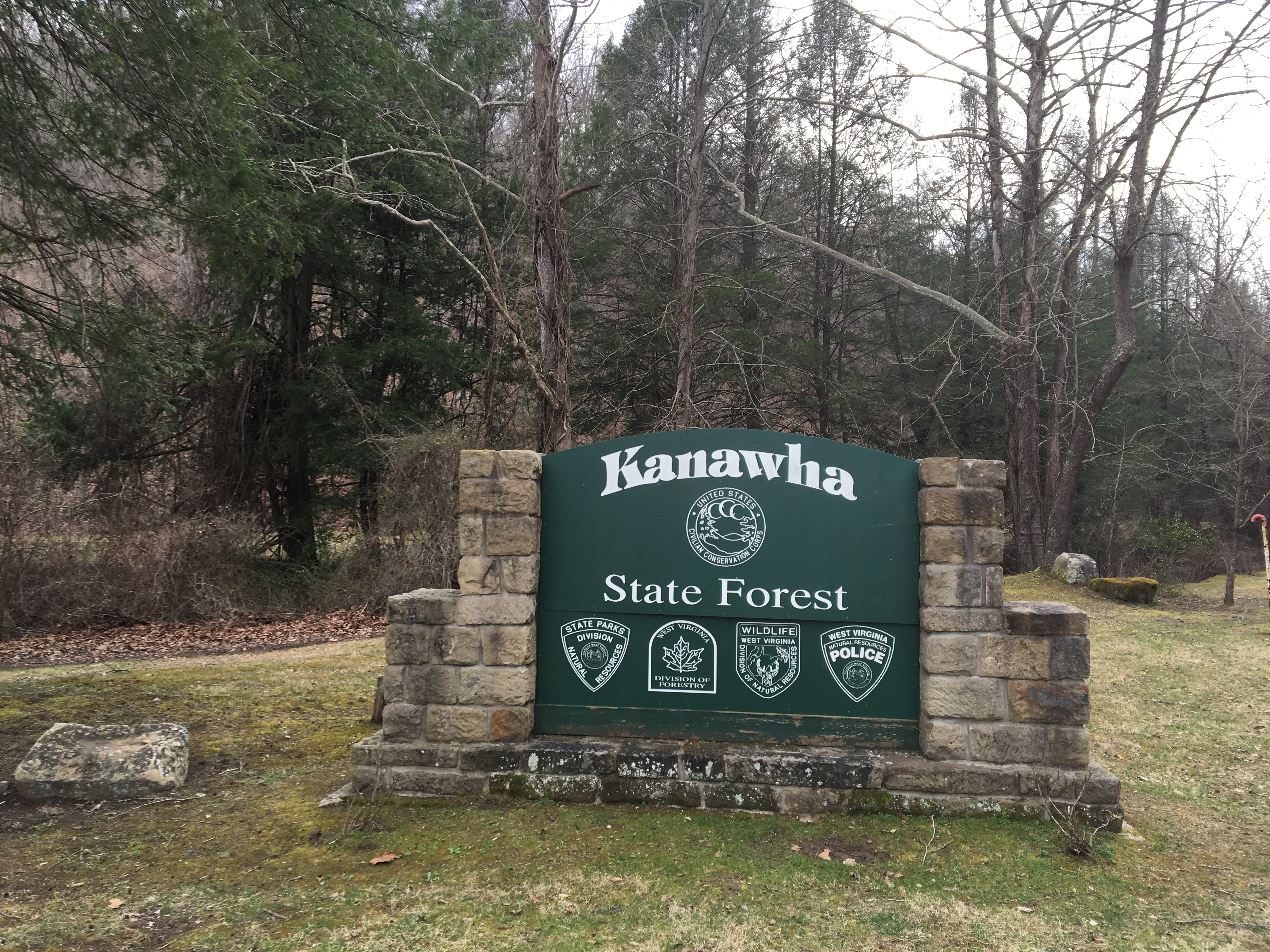 Taken along WV State Route 23/Kanawha State Forest Drive in Kanawha State Forest on March 10, 2016.